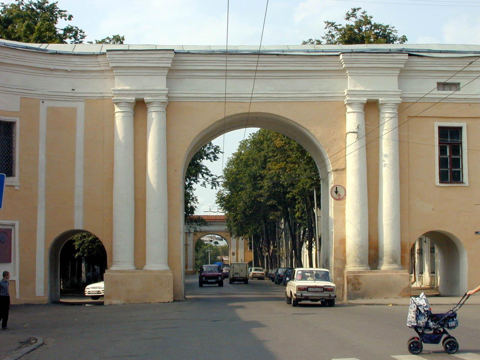 Kaluga, eastern archway at the Administration Building (built in 1780—1787 by Pyotr Romanovich Nikitin).